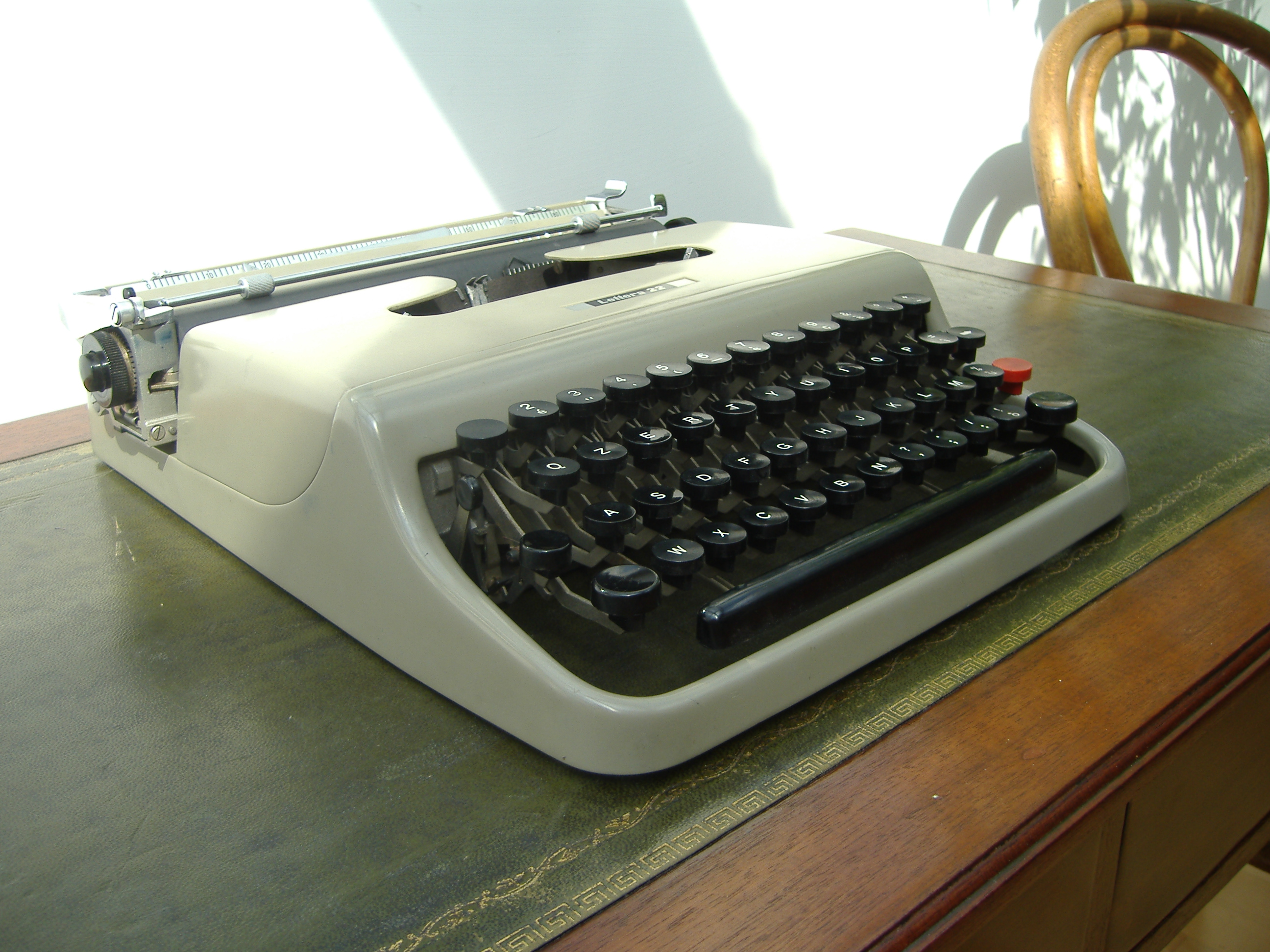 A photo of the Olivetti Lettera 22